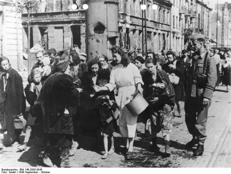 Warsaw Uprising: Peopleof Wola district leaving the city after the failed Uprising, while Polish nuns distribute water. Photo takes from the corner of Staszica and Wolska Streets looking East on Wolska street.